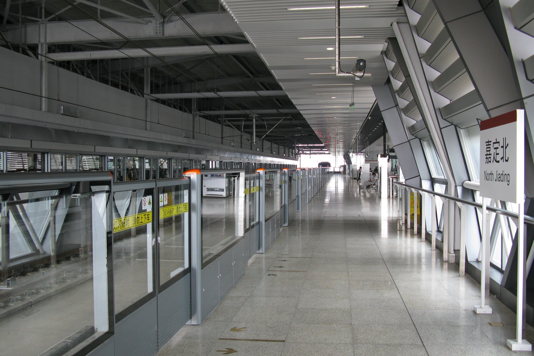 Line 11 Platform of North Jiading Station, Shanghai Metro